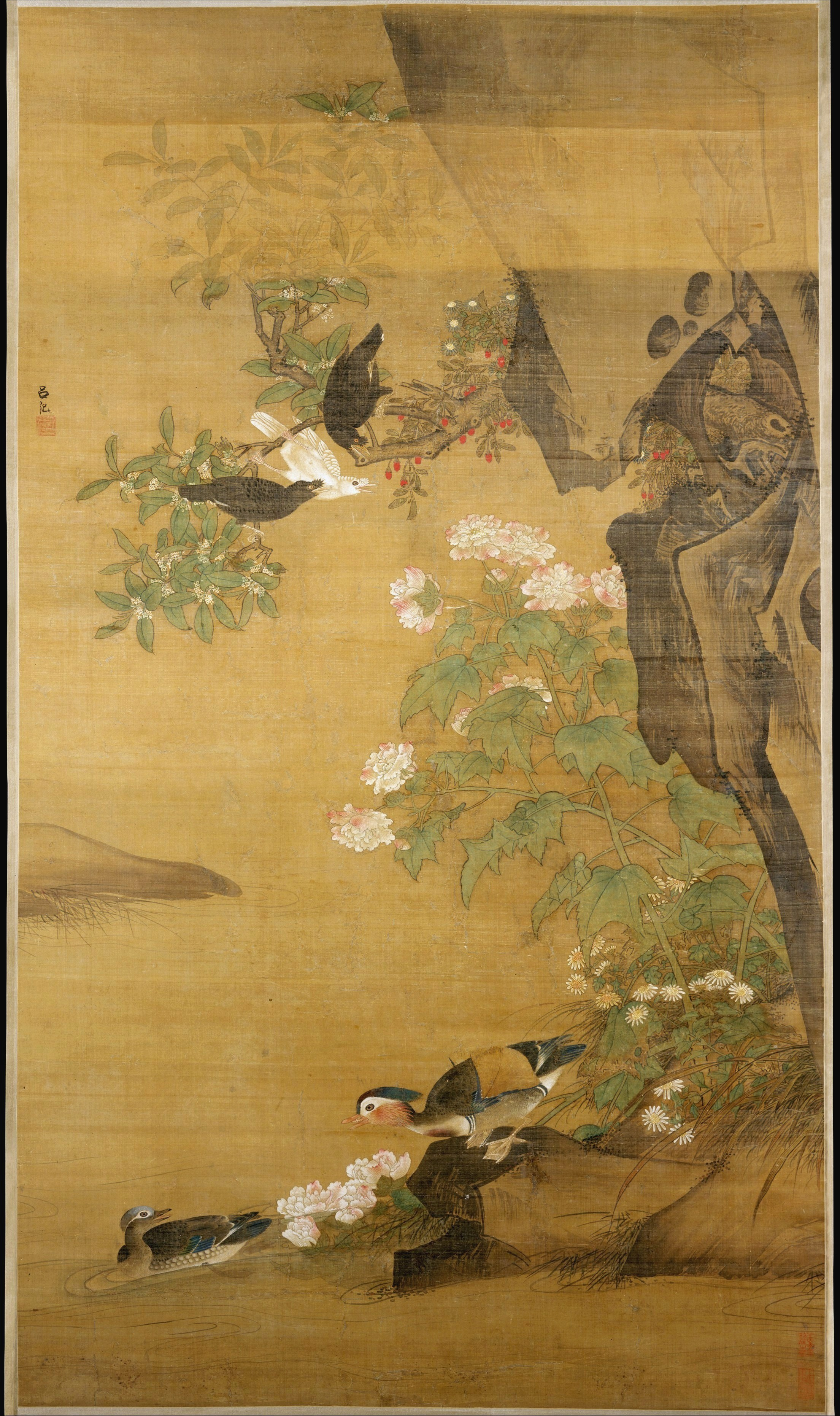 Lü Ji Mandarin Ducks and Hollyhocks. 15 cent. Metropolitan Museum New York